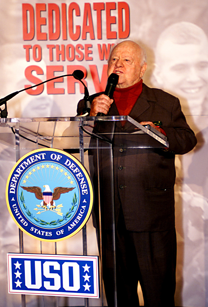 Actor Mickey Rooney, a World War II Bronze Star recipient, speaks at the Pentagon Nov. 2, 2000, during a corridor dedication ceremony honoring the USO.